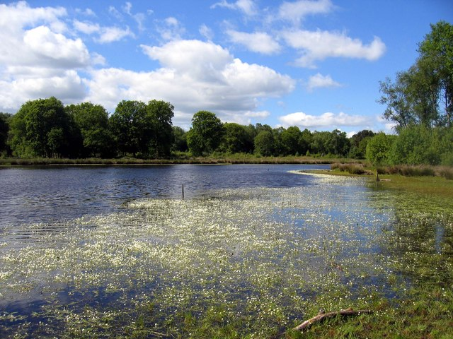 Brown Moss Nature Reserve near Whitchurch, Shropshire